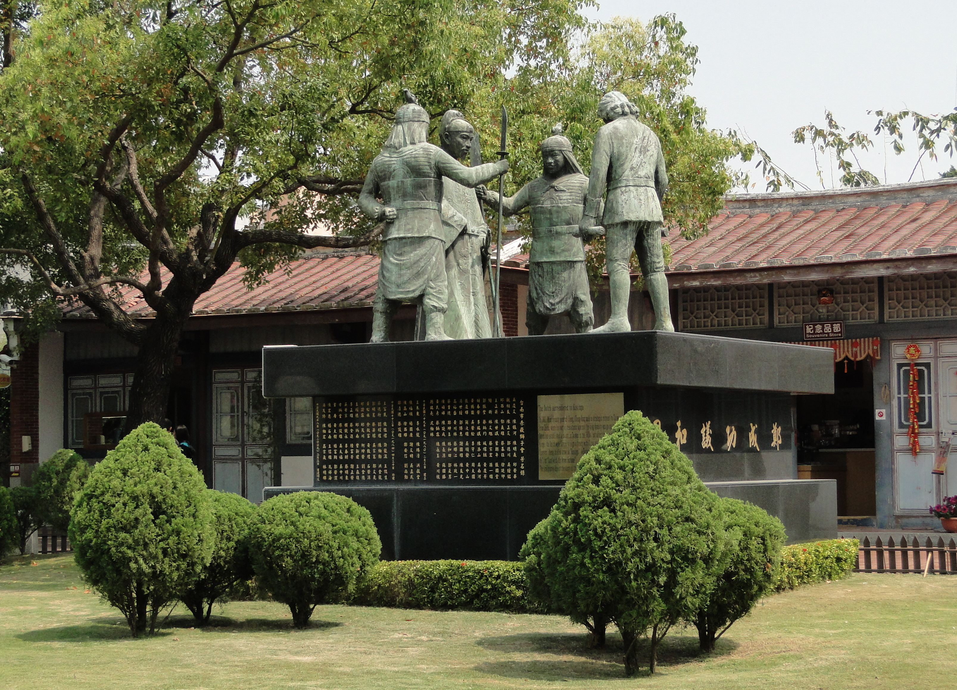 A statue near Chikan Tower (Fort Provintia) showing a scene from the Dutch surrender to Koxinga forces, Tainan, Taiwan